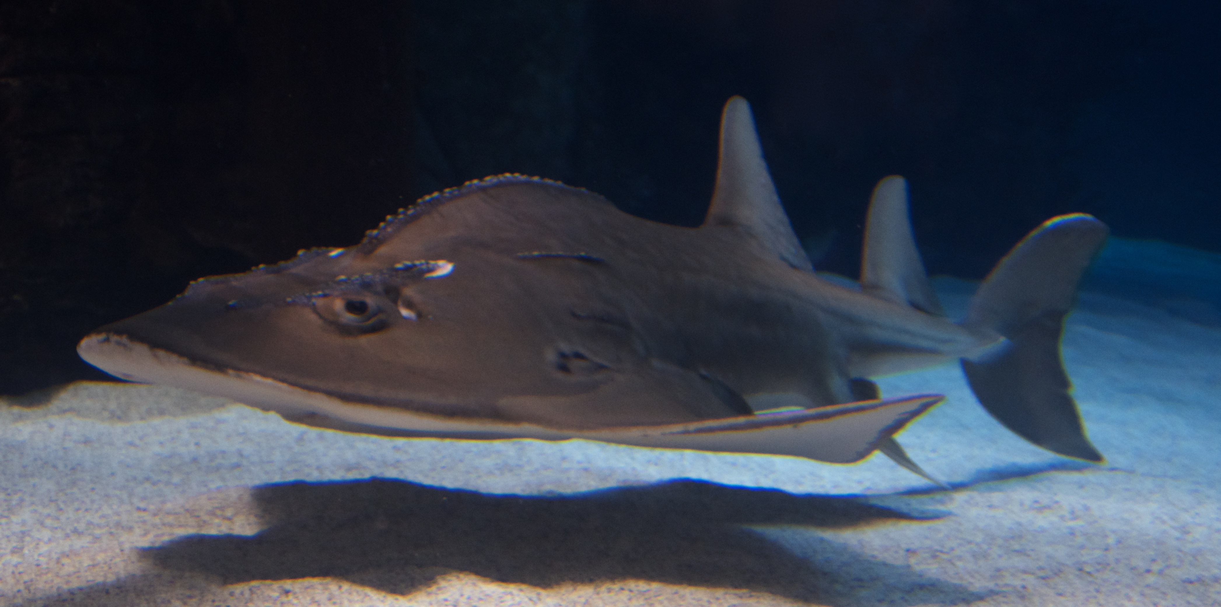 Shark ray (Rhina ancylostoma) at the Newport Aquarium